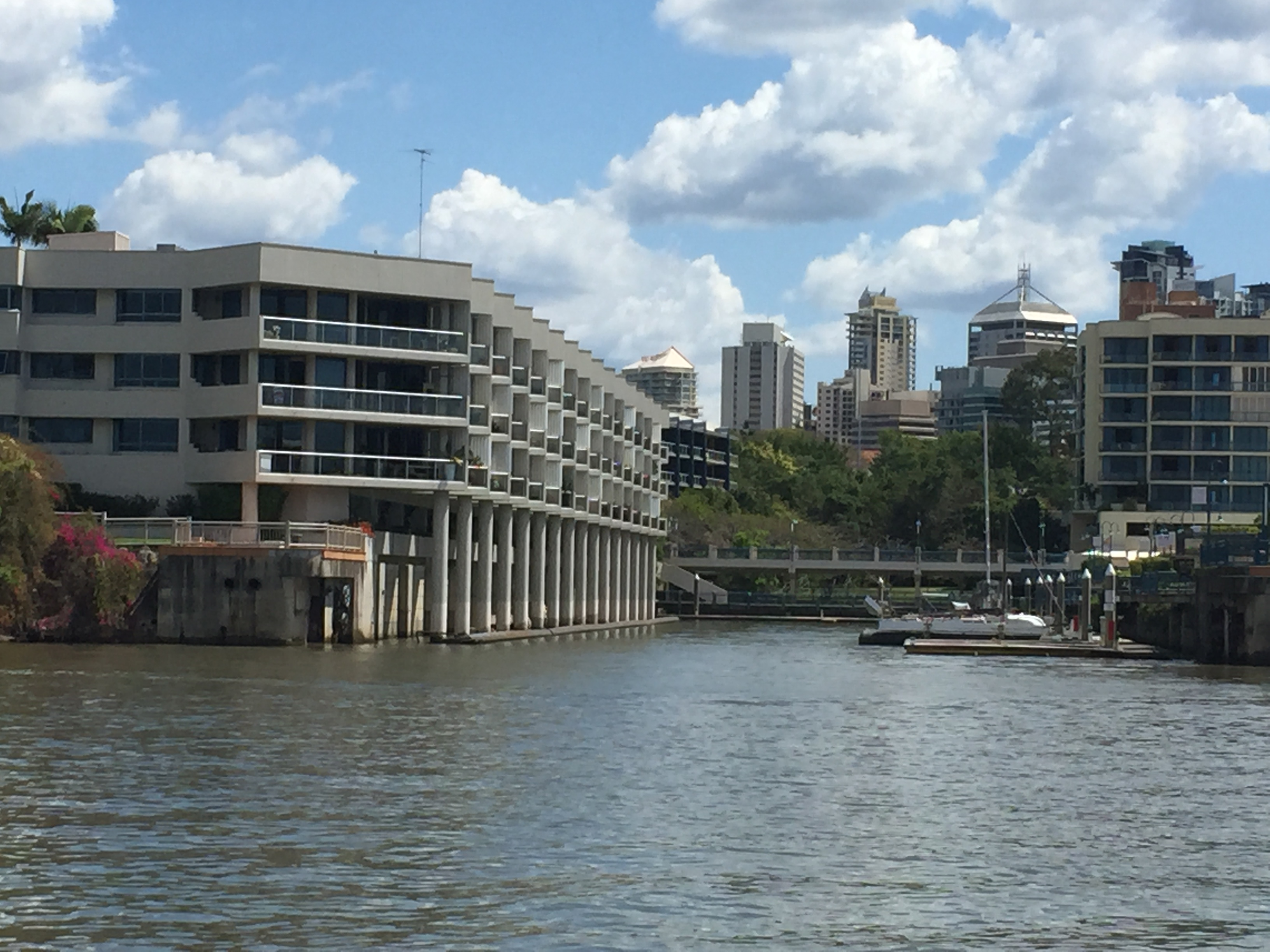 Dockside apartment building at Kangaroo Point, Brisbane, Queensland